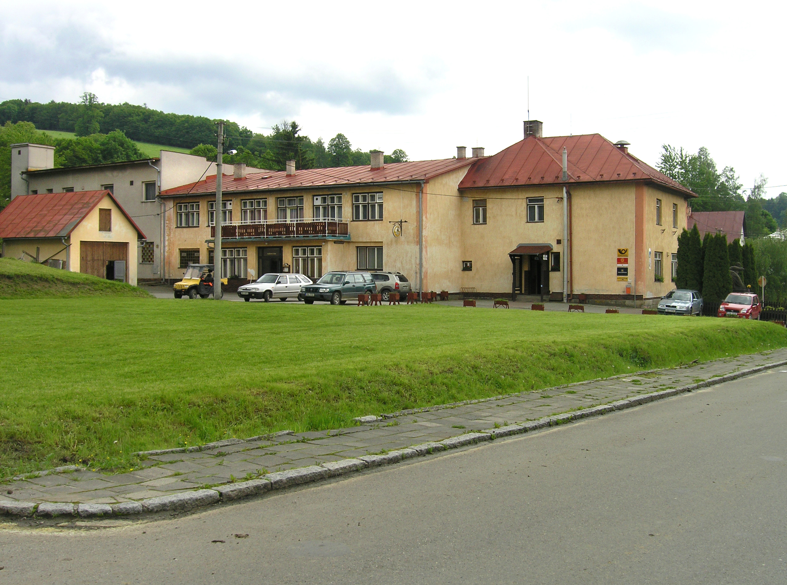 Municipal office and post office in Prlov, Czech Republic